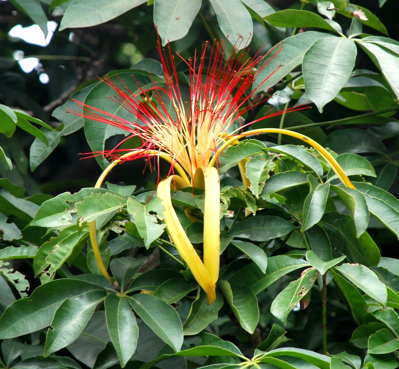 SOLITARY FLOWER ...........(Pachira aquatica), Munguba, Money tree flower, park ceret, Sao Paulo. Brazilian native tree from Bombacaceae fam